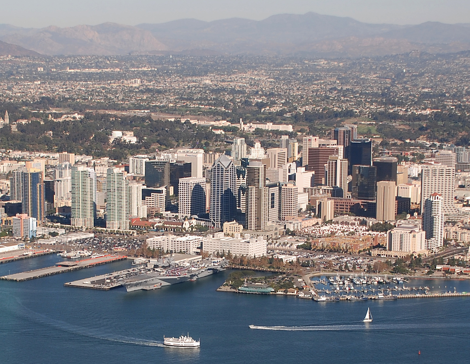 Downtown San Diego from the air.